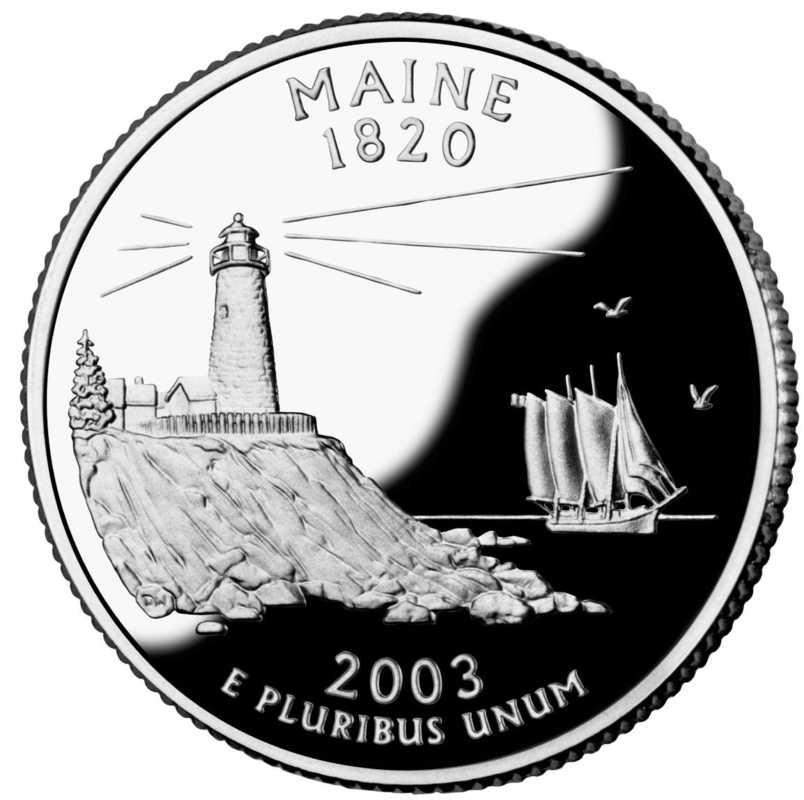 The reverse side of the Maine State Quarter. It is a "proof".